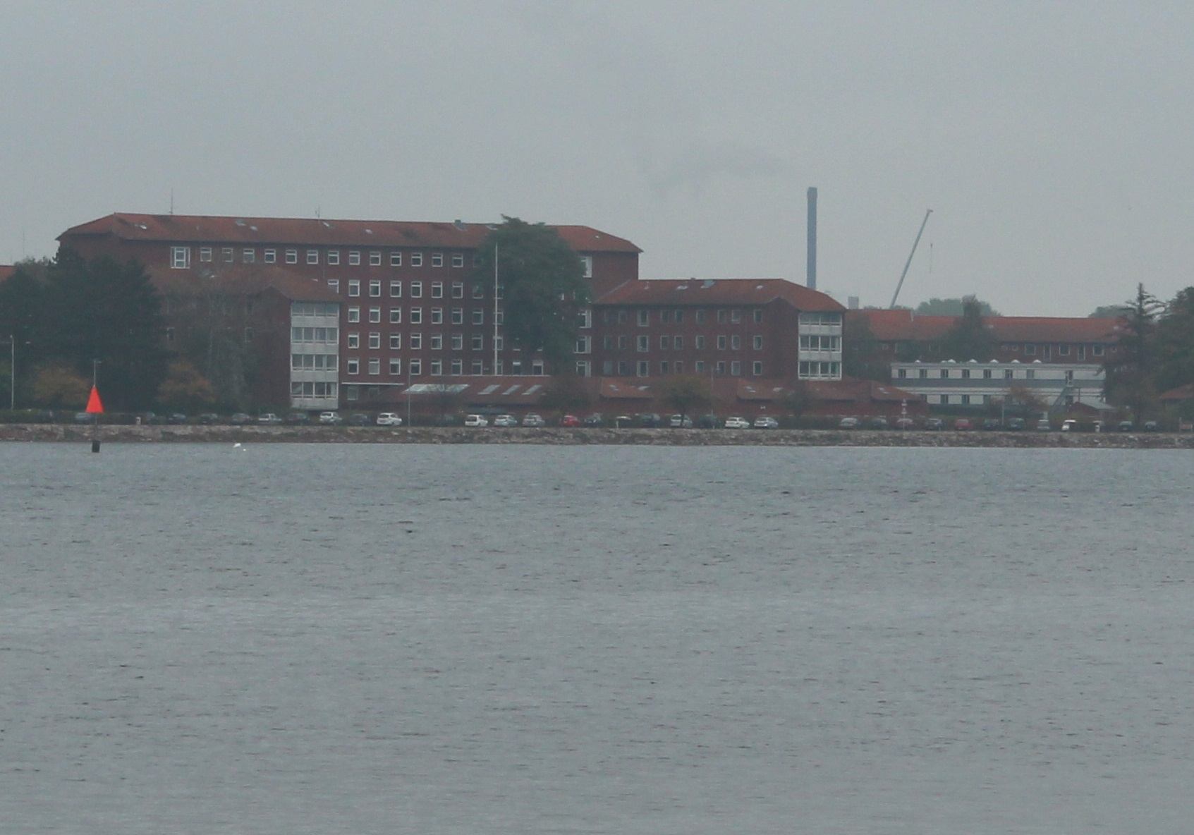 The hospital in Nykøbing Falster, Denmark, seen from the open air museums Middelaldercentret